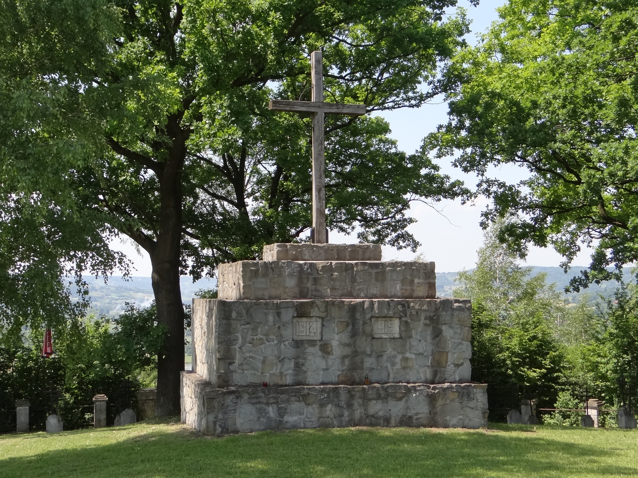 World War I Cemetery nr 163 in Tuchów